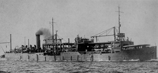 Japanese seaplane carrier Kamoi 1937.